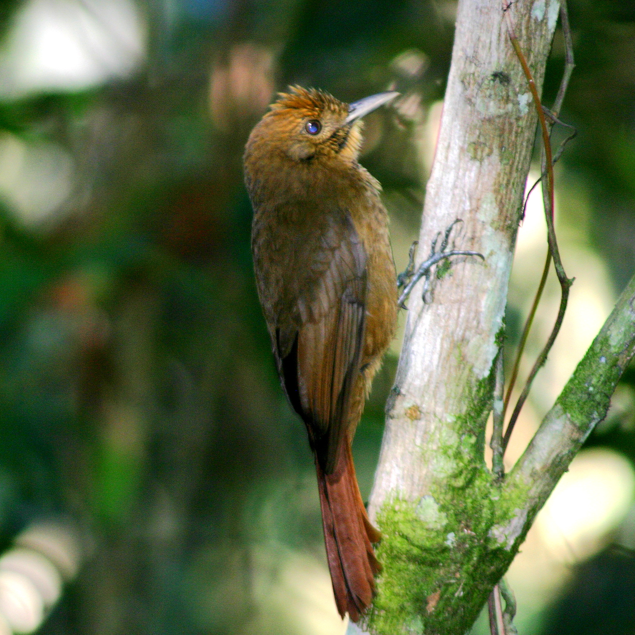 Plain-winged Woodcreeper at Bertioga - SP - Brazil